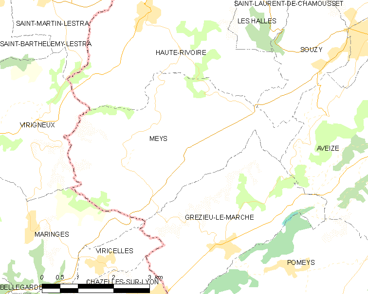 Map of French municipality